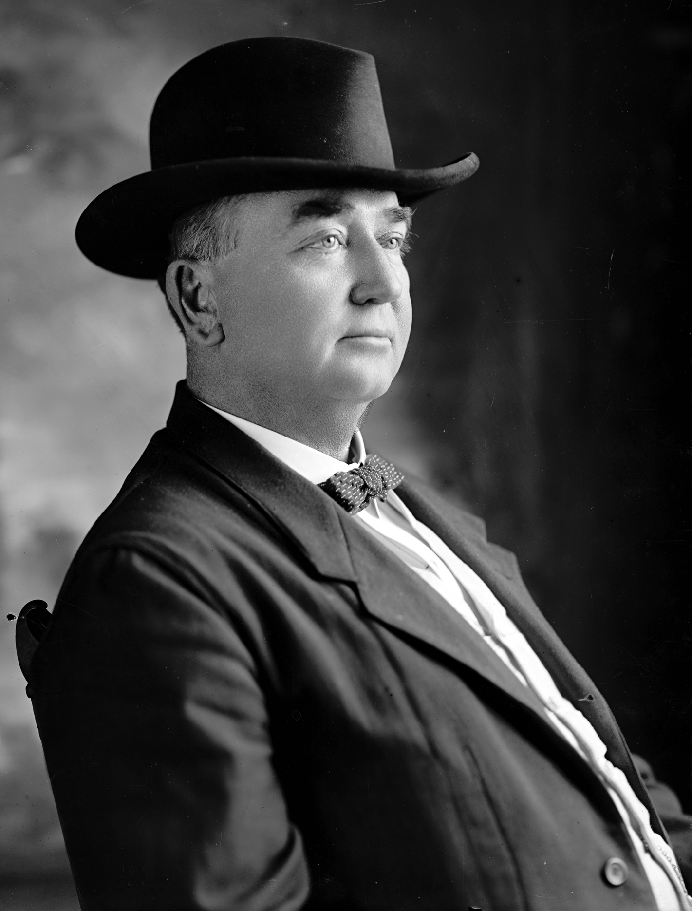 James M. Griggs, US Representative from Georgia